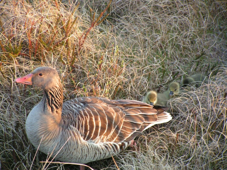 Anser anser together with its chicks